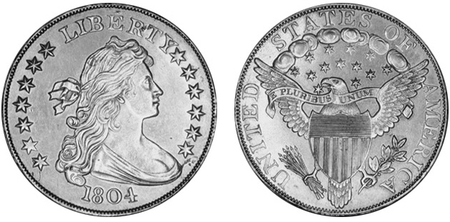 A 1804 Silver Dollar – Class I – US Mint Specimen.